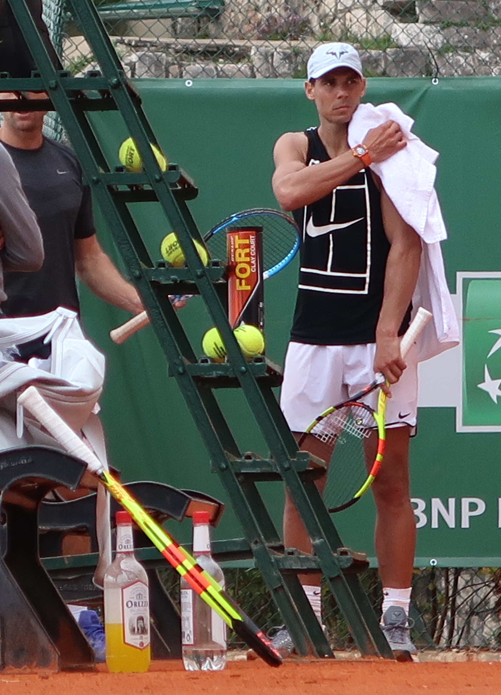 2018 Monte-Carlo Masters